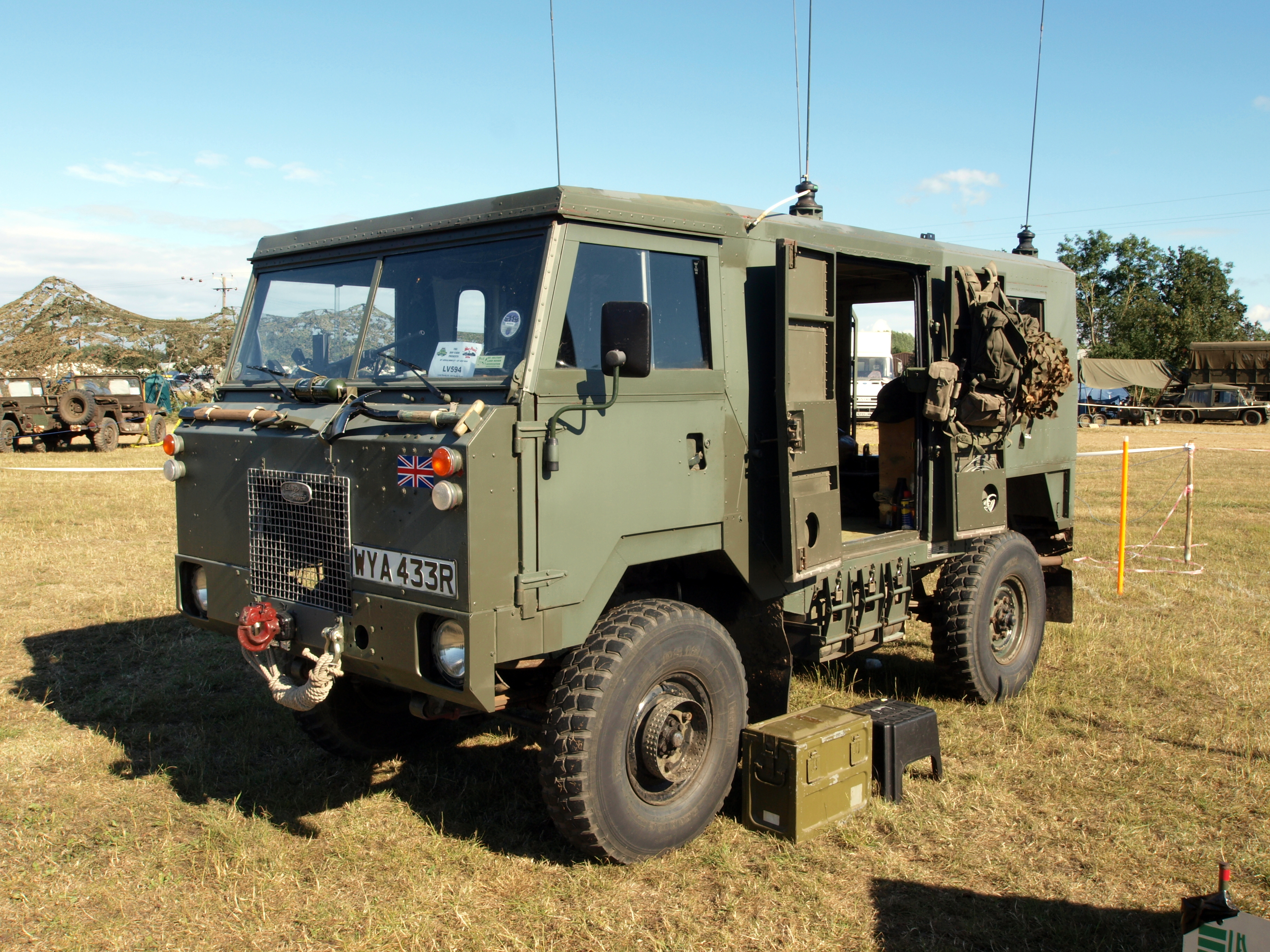 Land Rover 101 Forward Control